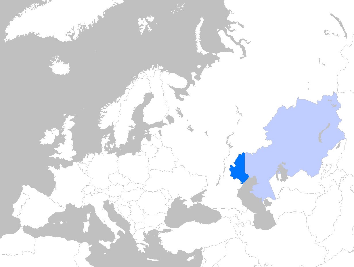 Location map of Kazakhstan within Europe (light blue represents territory of the country considered to be located in Asia)